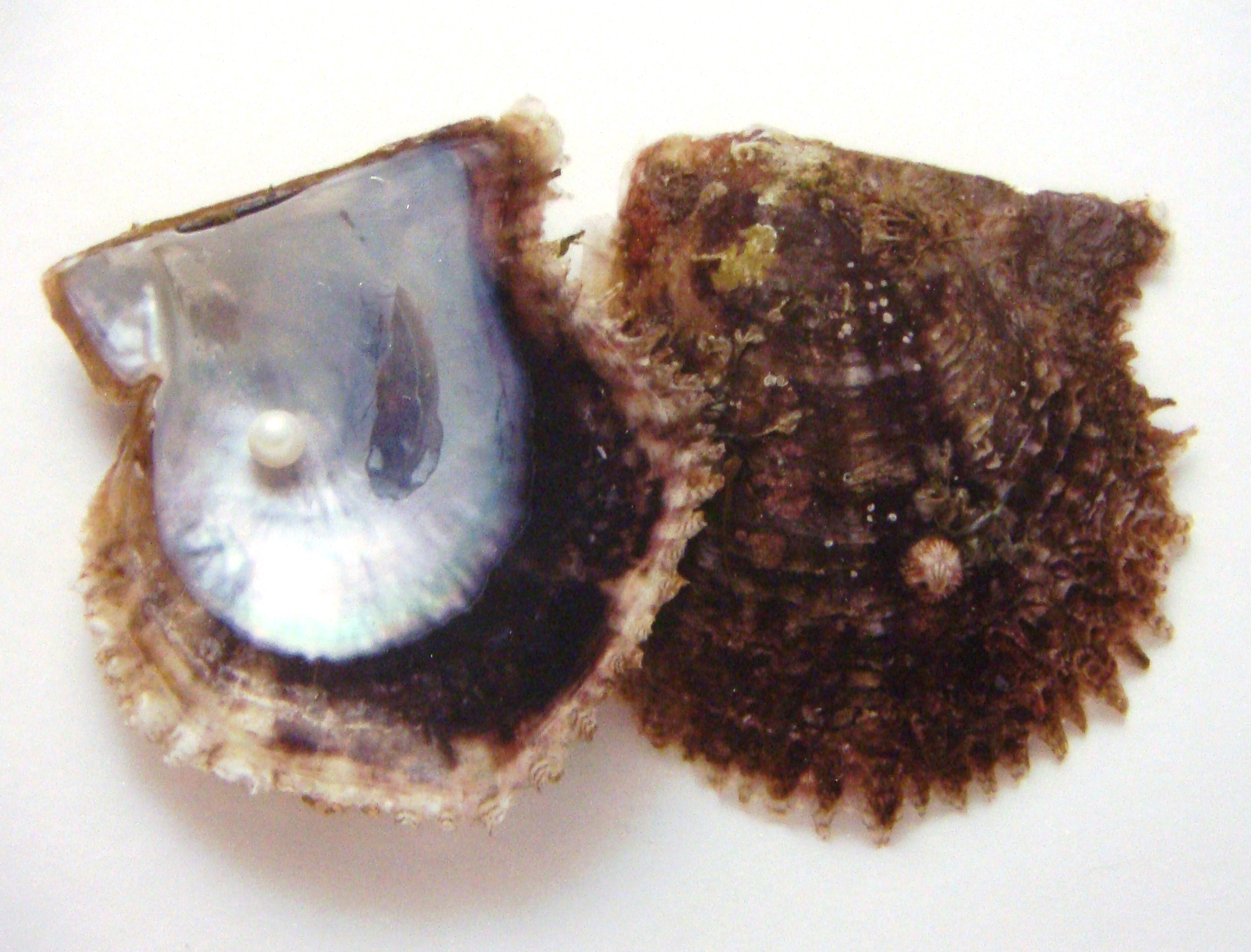 Akoya pearl, 1,73 Mb